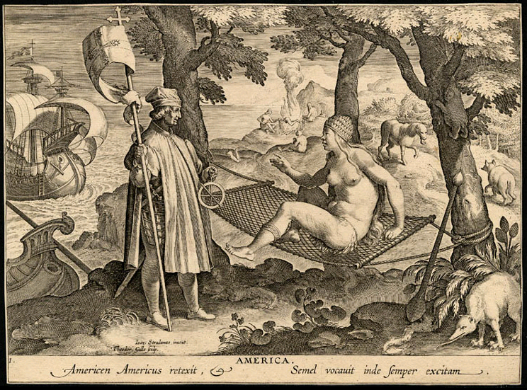 Amerigo Vespucci awakens a sleeping America.